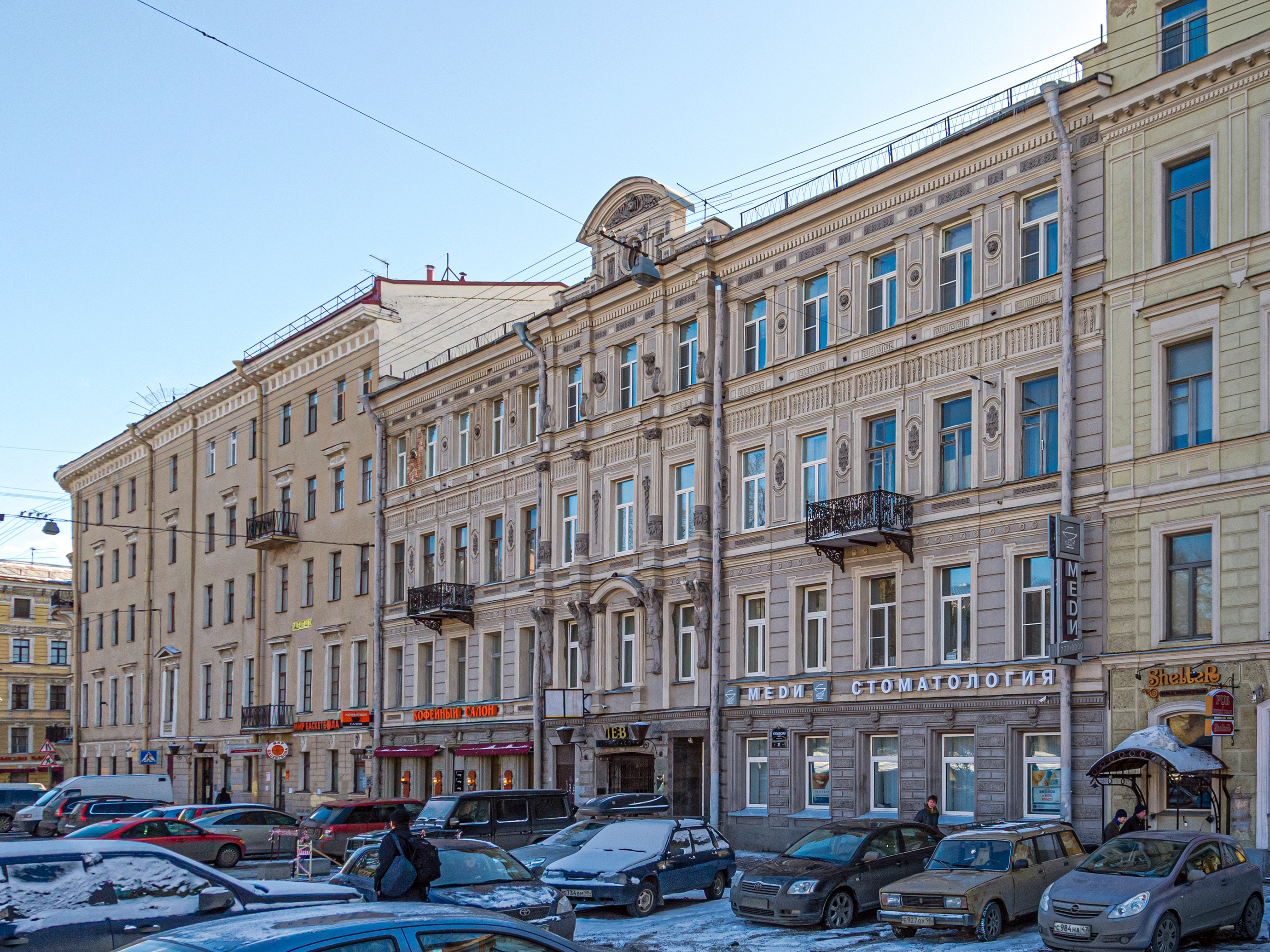 31, Italianskaya Street in Saint Petersburg.